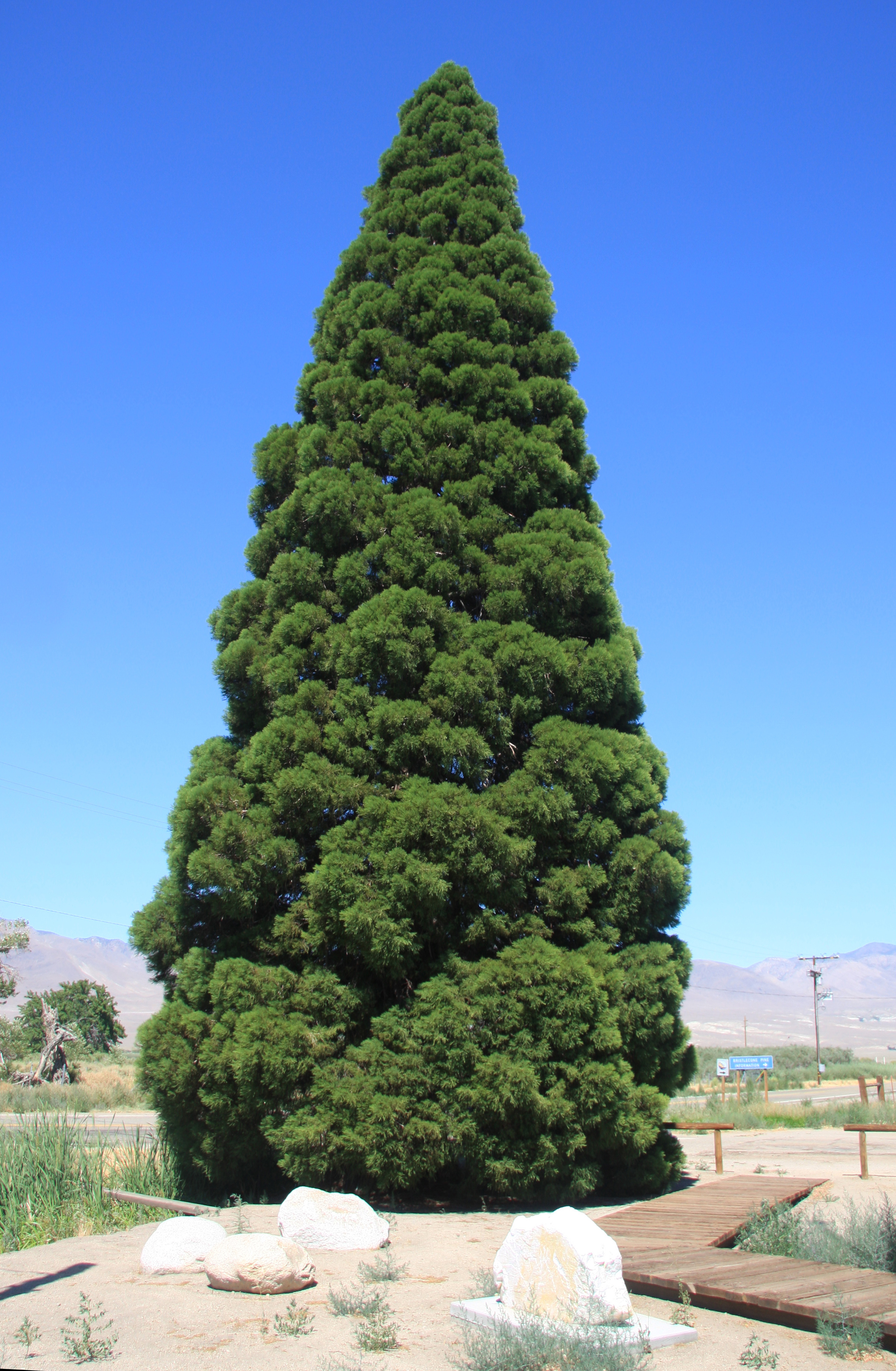 Young giant sequoia (Sequoiadendron giganteum), nurtured in the town of Big Pine, California. Planted in 1913 to commemorate the opening of Westgaard Pass to autos. In Owens Valley at the corner of US395 and CA168, which leads to Westgaard Pass and the Ancient Bristlecone Pine Forest in the White Mountains of California and Nevada.